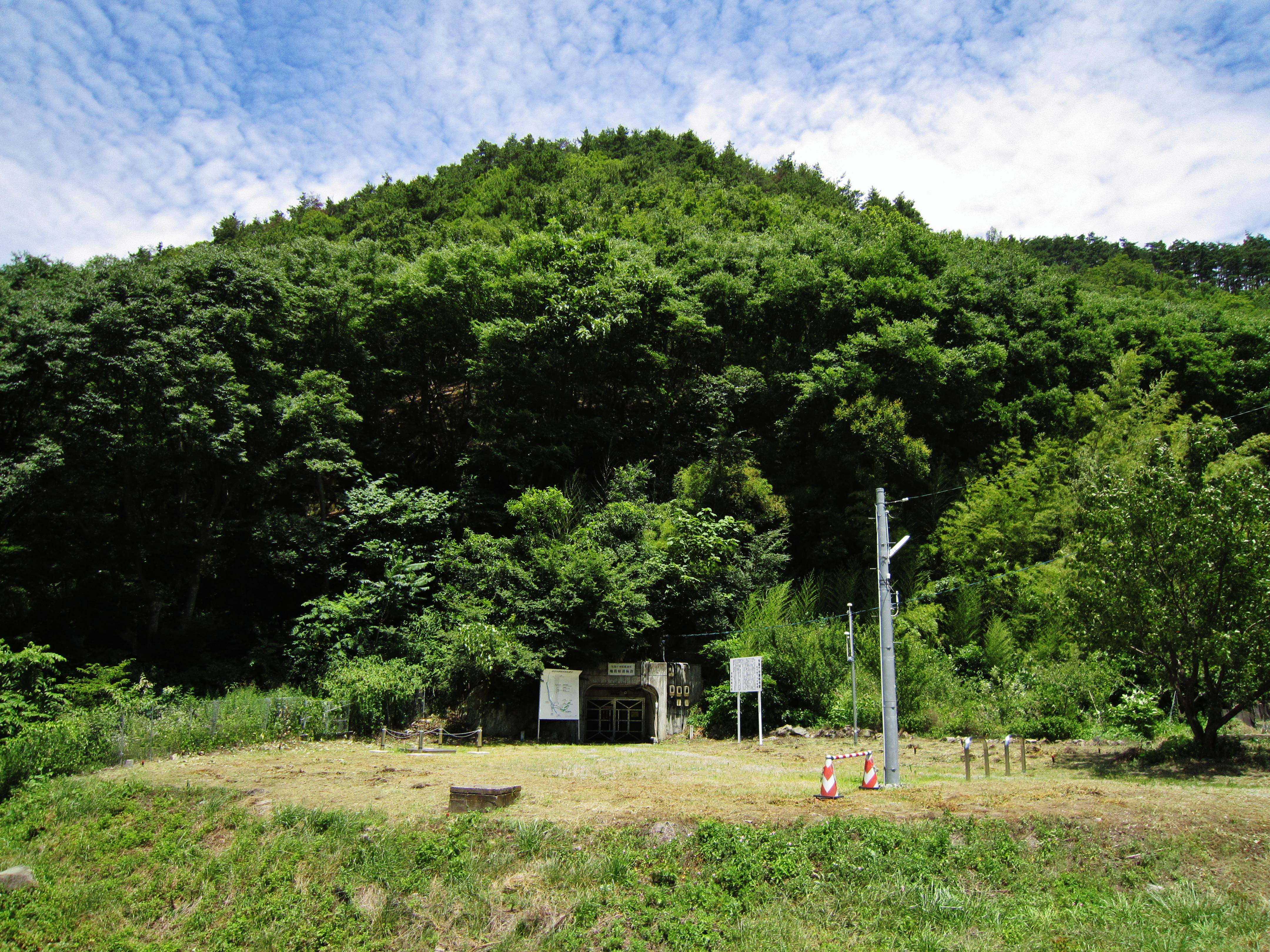 Matsushiro Seismological Observatory major tunnel entrance.